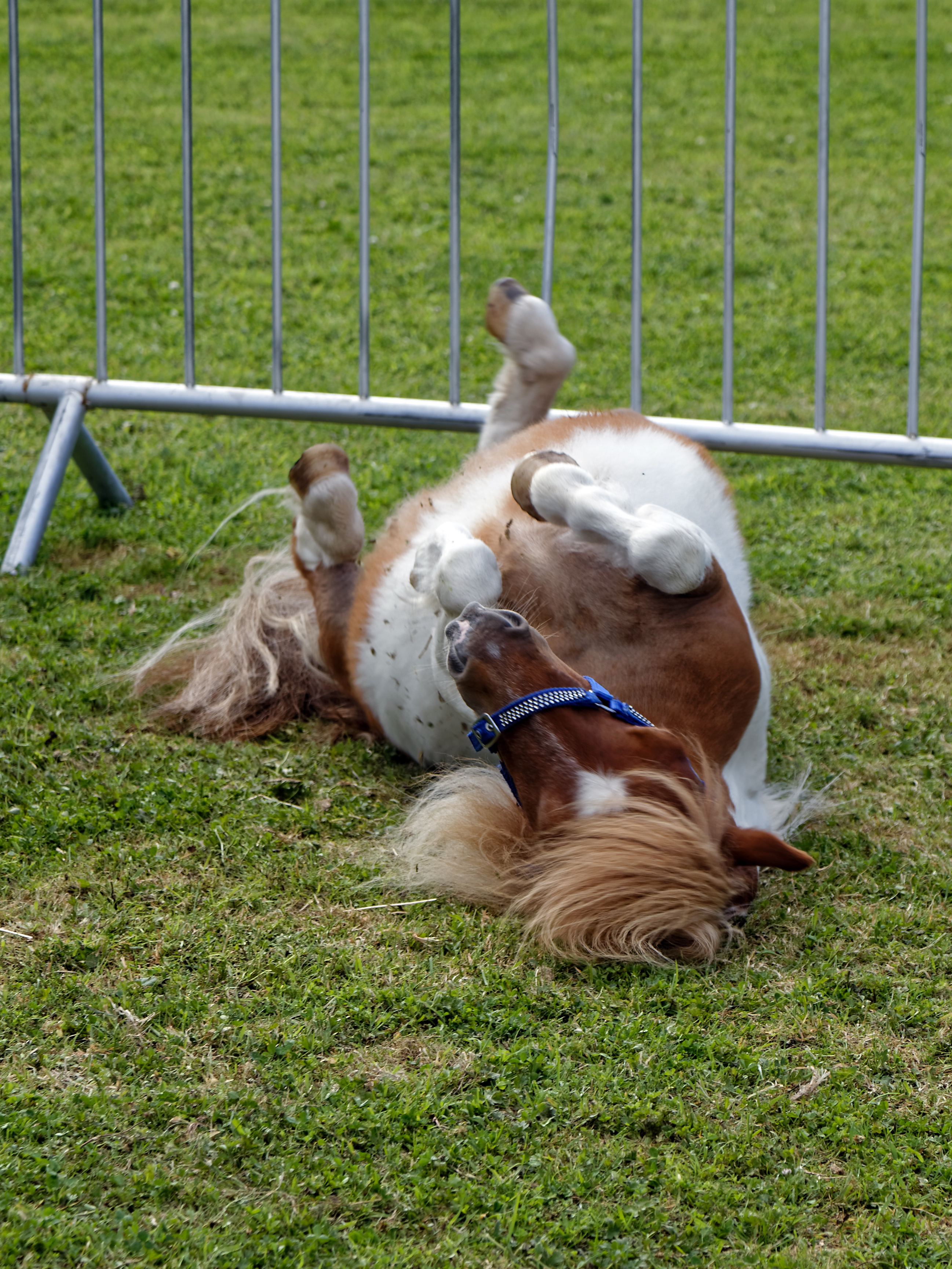 A Shetland pony in Boreham, Essex, England.Camera: Canon EOS 6D with Canon EF 24-105mm F4L IS USM lens.Software: RAW file lens-corrected, optimized and converted with DxO OpticsPro 11 Elite, and further optimized with Adobe Photoshop CS2.